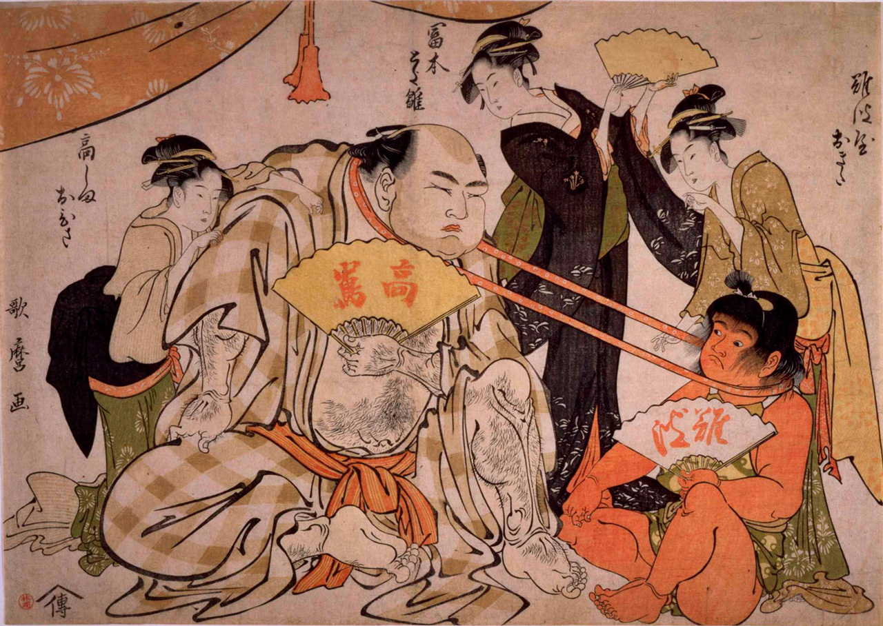 Tanikaze fights Kintarō by game of neck pull while the three beautiful women in the Kansei era watched.